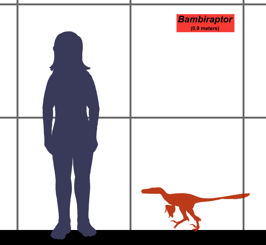 Size comparison between Bambiraptor feinbergi (the holotype) and a human.